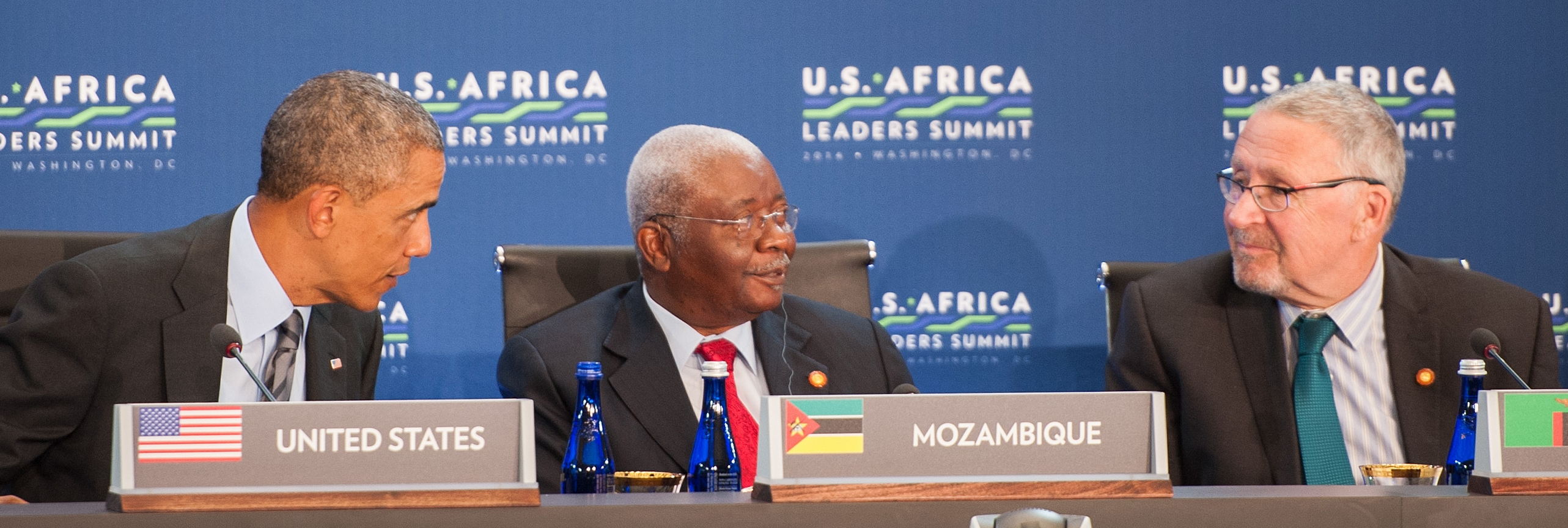 President Barack Obama chats with Mozambique's President Armando Guebuza and Zambia's Vice President Guy Scott before delivering remarks at the U.S.-Africa Leaders Summit Session One on “Investing in Africa’s Future,” at the U.S. Department of State in Washington, D.C., on August 6, 2014. [State Department photo/ Public Domain]